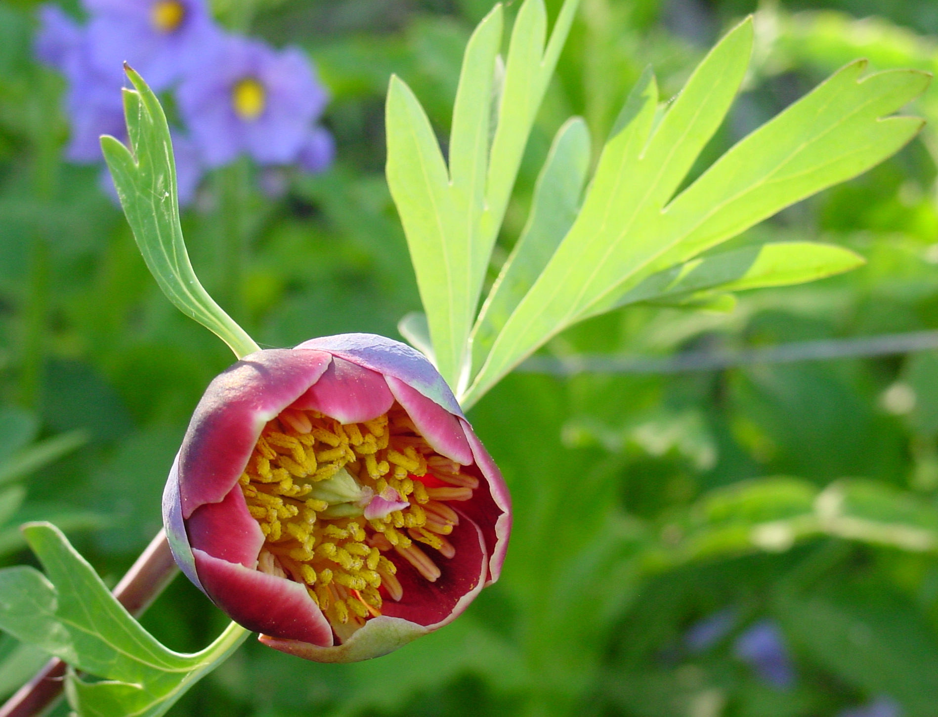 Flower of Paeonia californica.